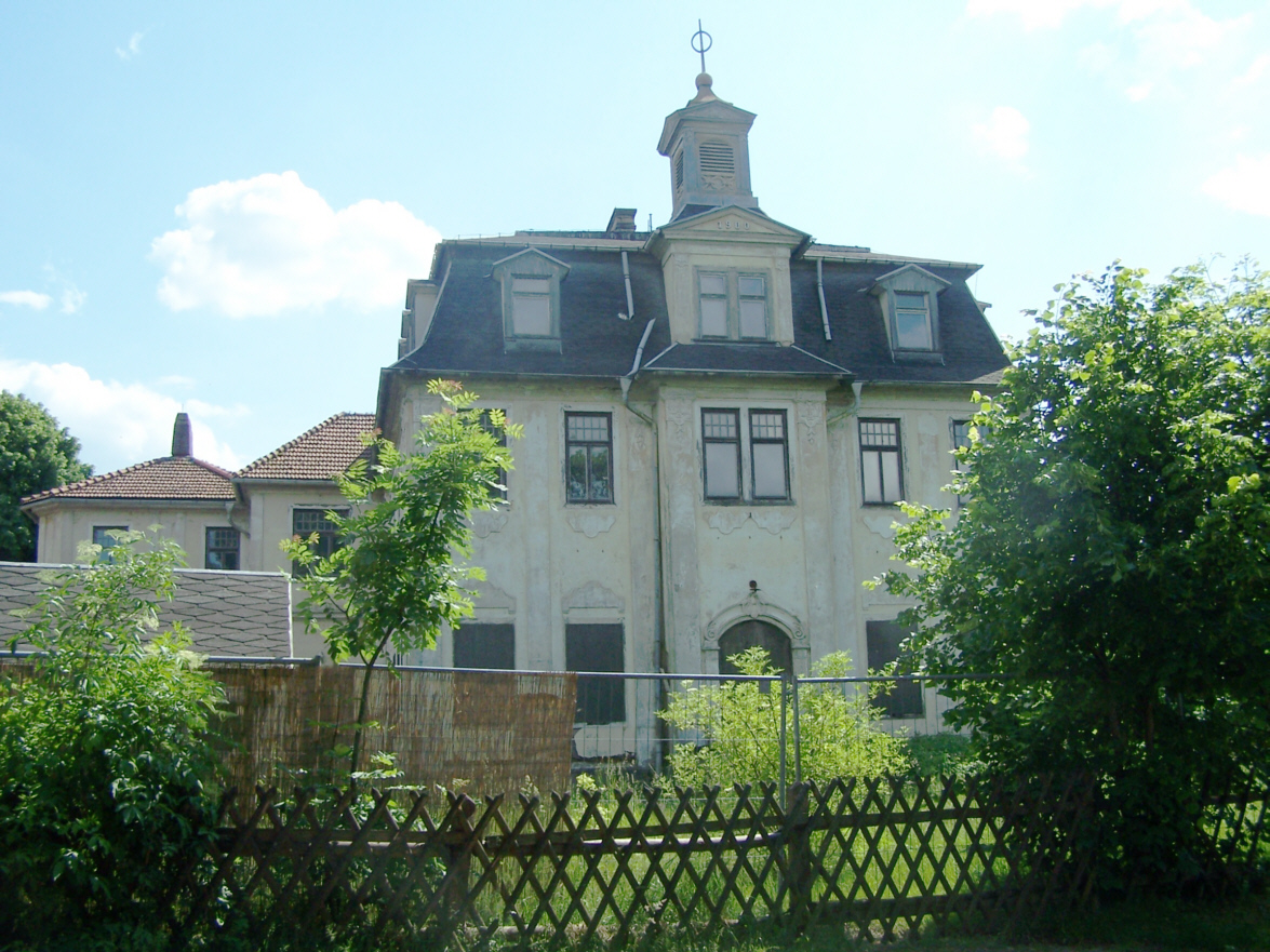 The former hunting lodge "Hohe Sonne" near Eisenach